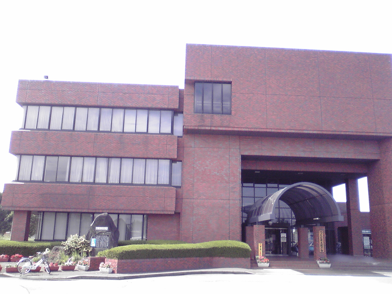 These are buildings of Tsukuba city hall Oho branch (Japan).